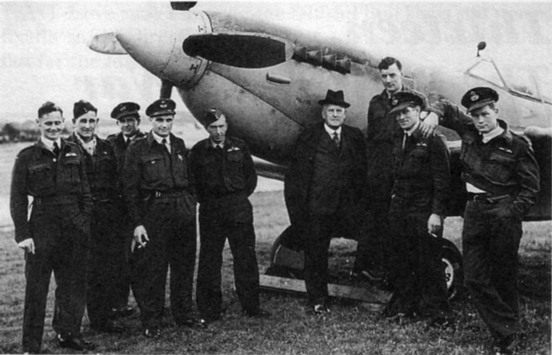 Photograph showing New Zealand aircrew serving with the RAF in No. 485 Squadron RNZAF in front of Supermarine Spitfire MkIX with New Zealand High Commissioner Bill Jordan.